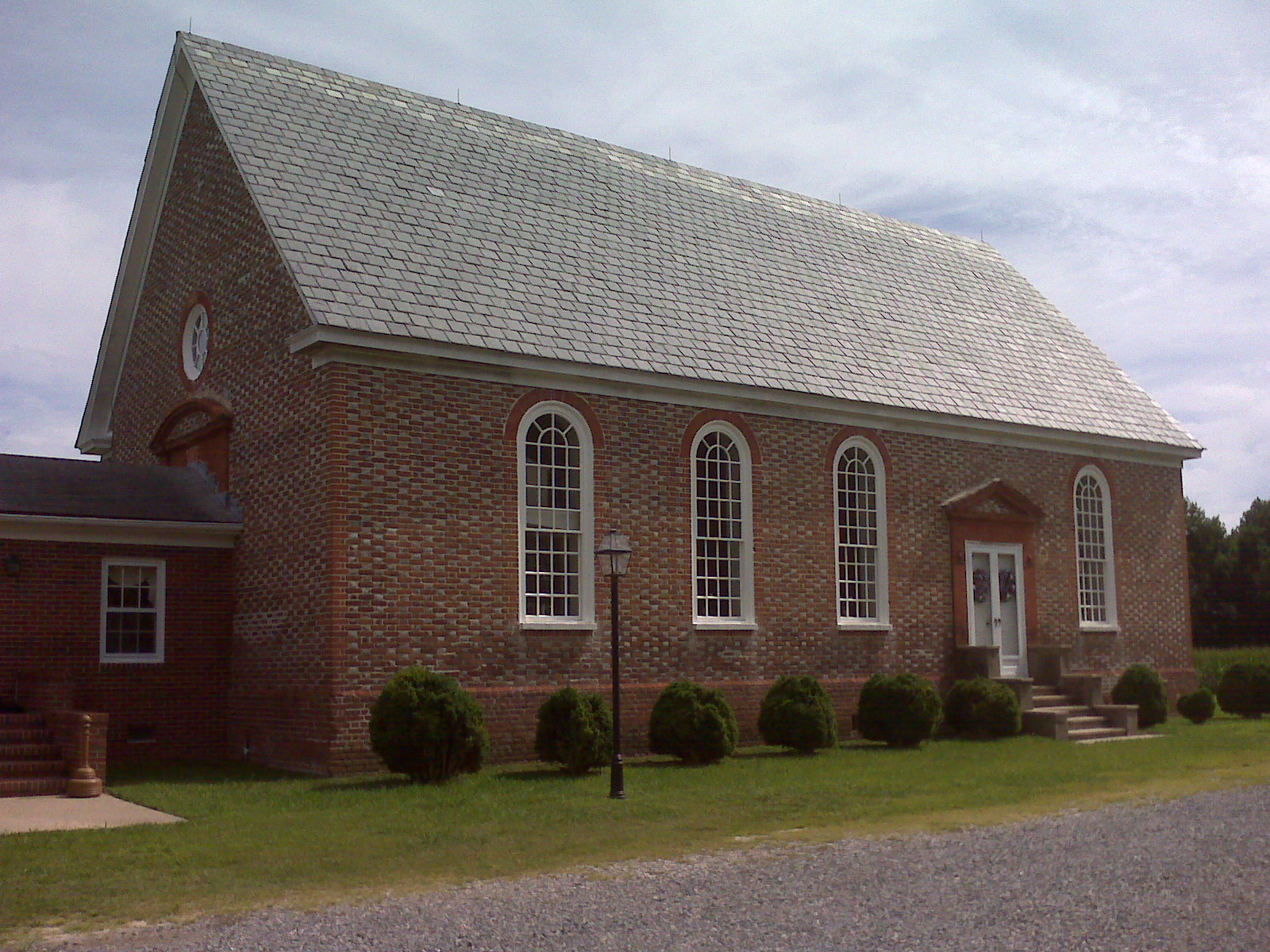 Upper Church, Stratton Major Parish, King and Queen County, Virginia (now Old Church United Methodist)